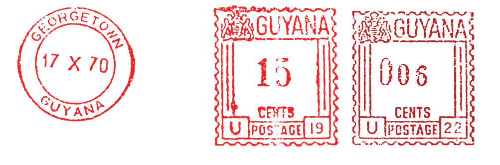 Meter stamp catalog image, Guyana type B1